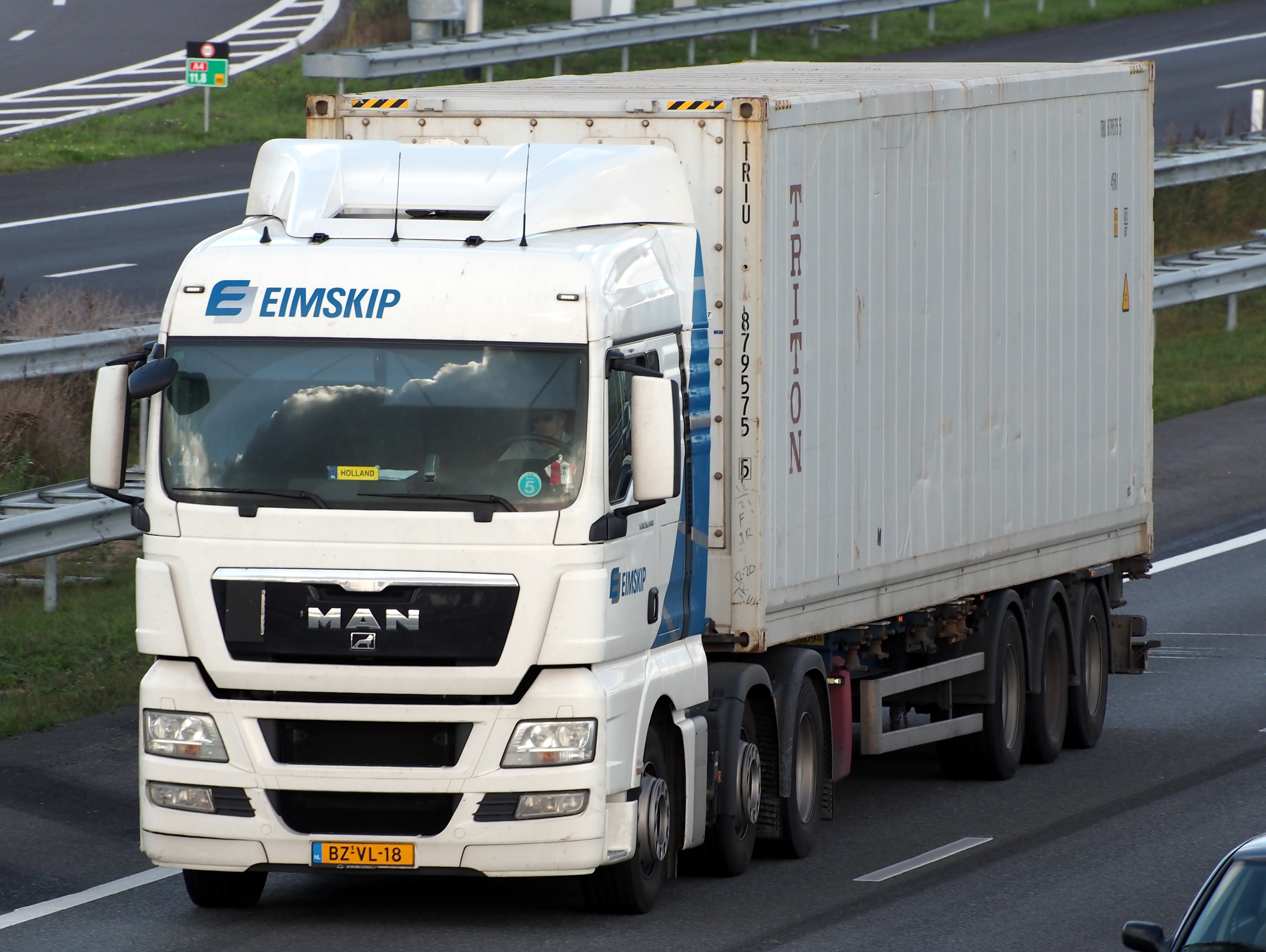 Photographed on the A4 near Hoofddorp, The Netherlands.